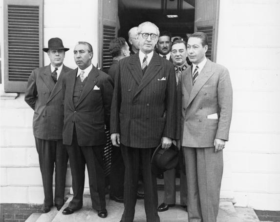 President Juan Antonio Rios of Chile (fourth from right) with other unidentified dignitaries in the doorway of Mount Vernon, the home of George Washington.